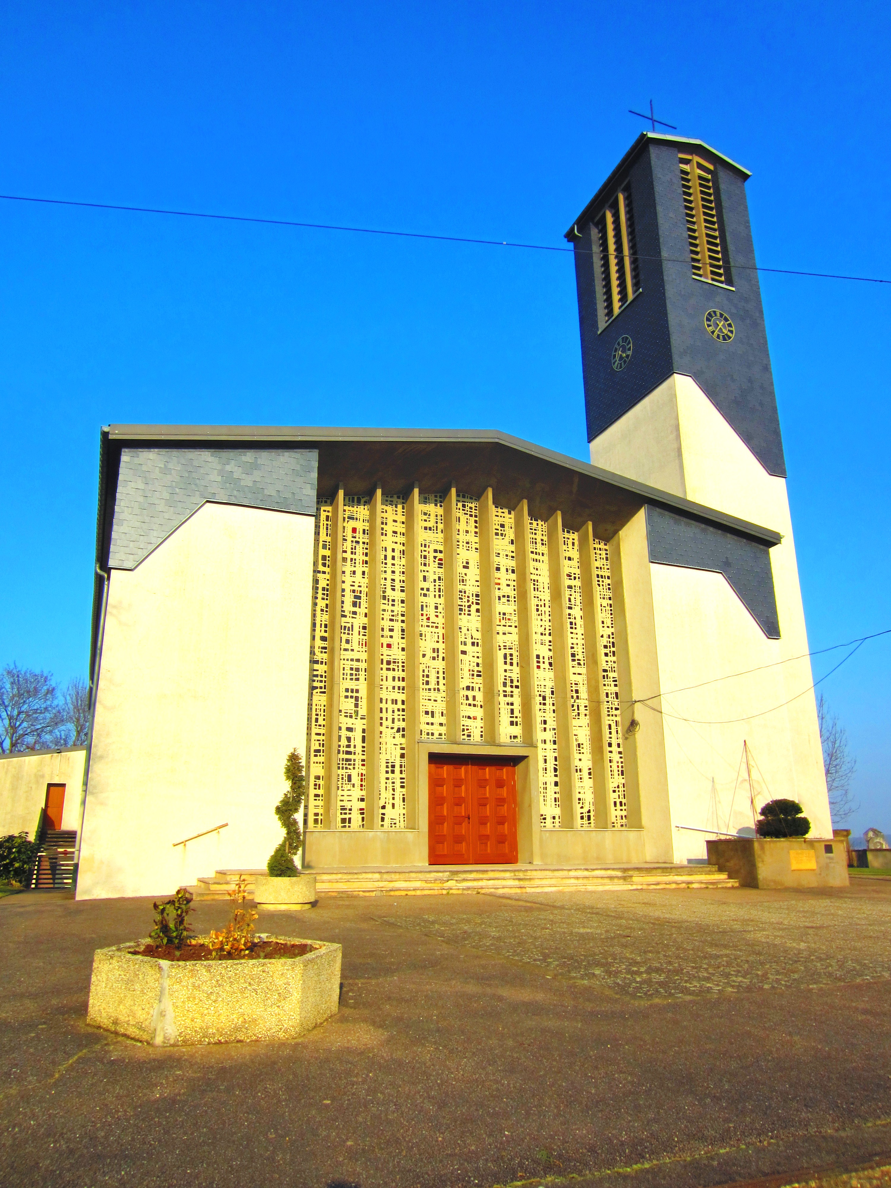 Remilly church